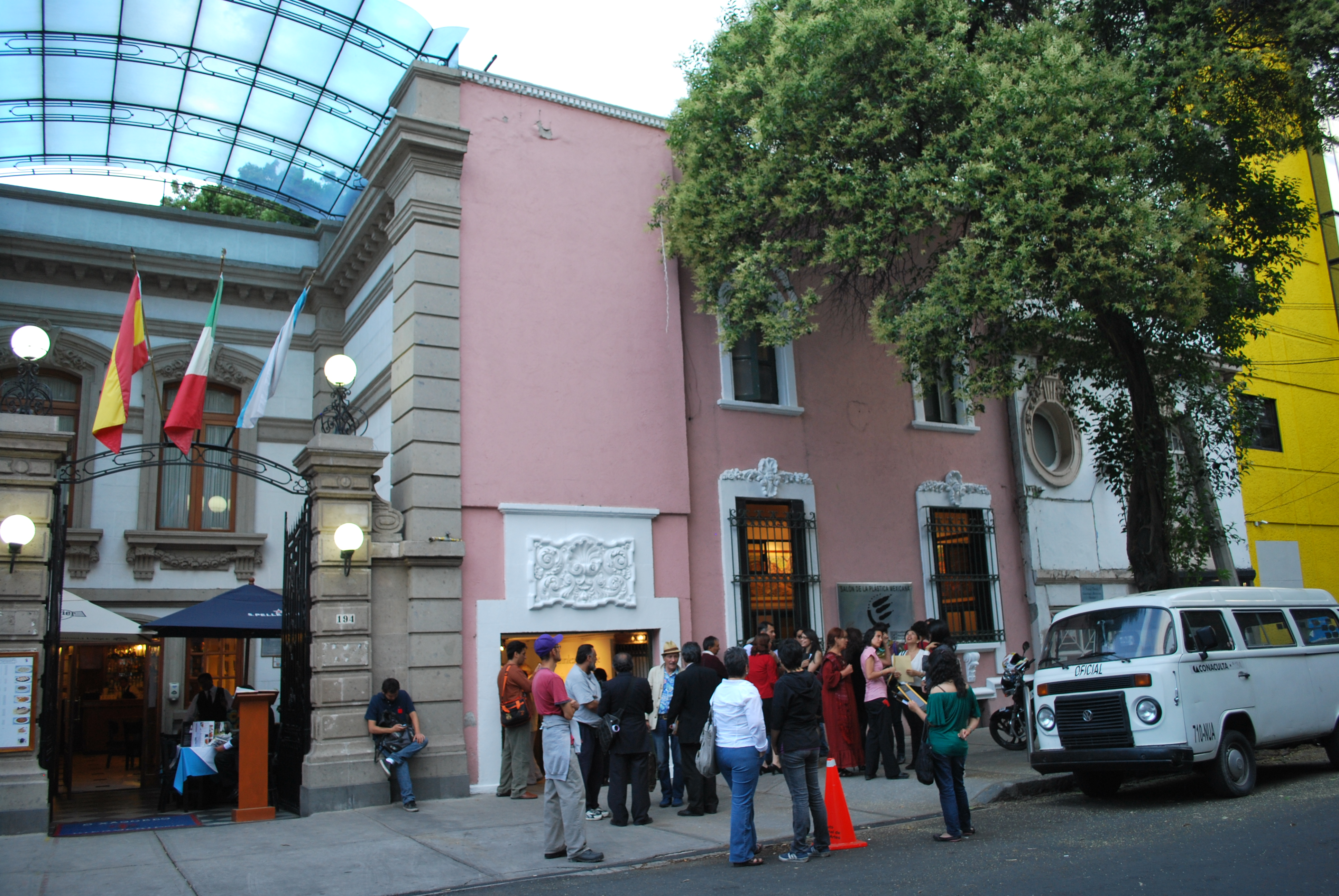 View of the Colonia Roma building of the Salón de la Plastica Mexicana in Mexico City